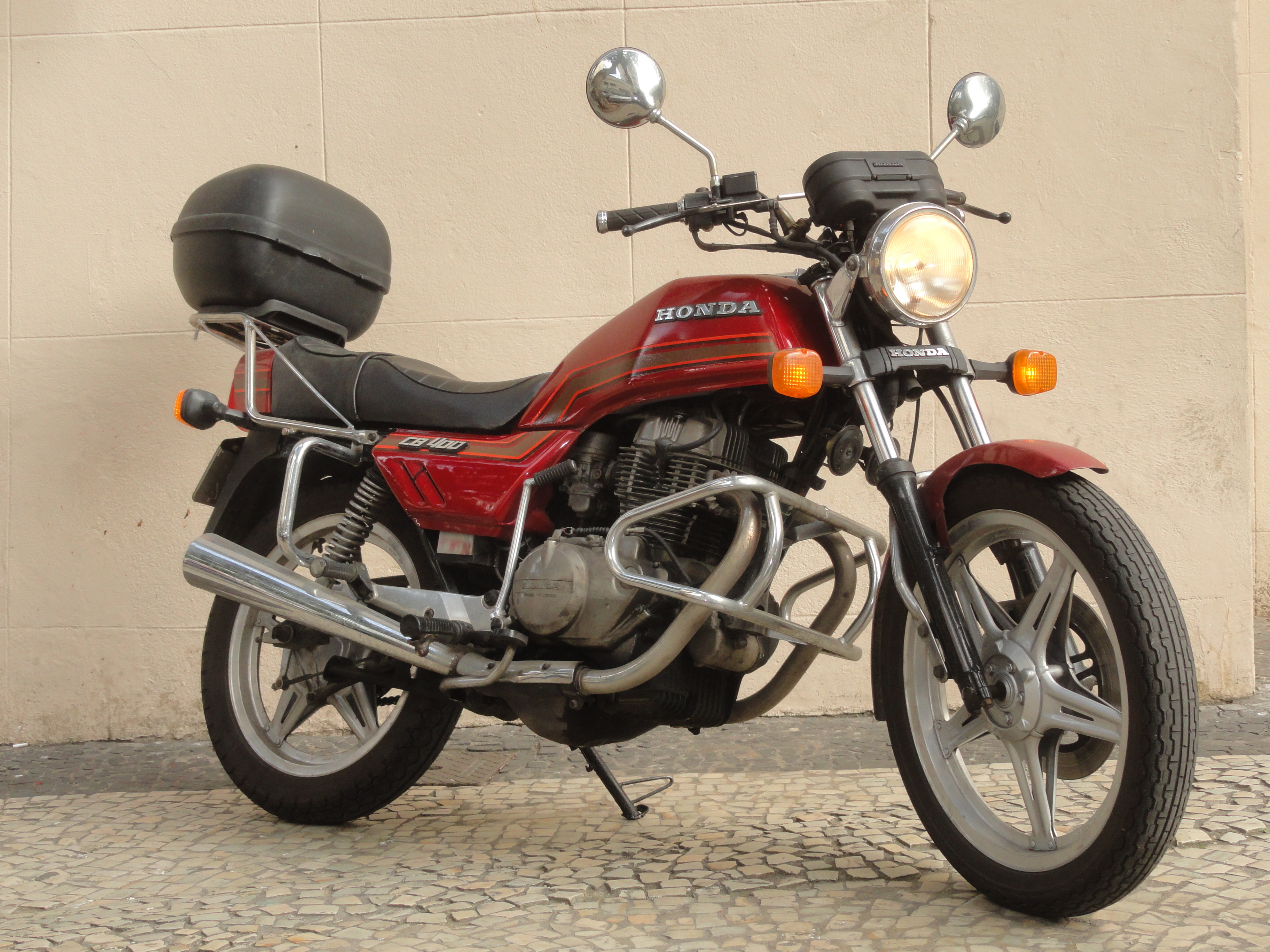 Brazilian assembled Honda CB-400, model year 1981